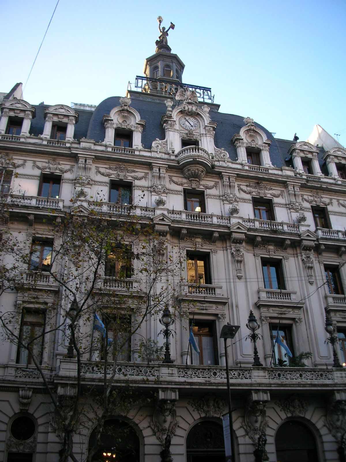 The former La Prensa building, today the Buenos Aires House of Culture.